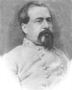 Nathaniel Harrison Harris, Brigadier General in the Confederate States Army.